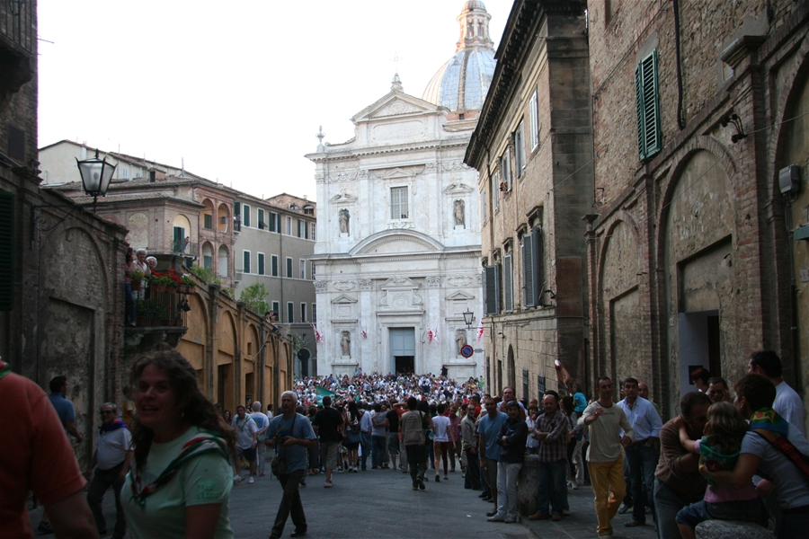 The Church of the Madonna di Provenzano waiting for the Palio winners to arrive